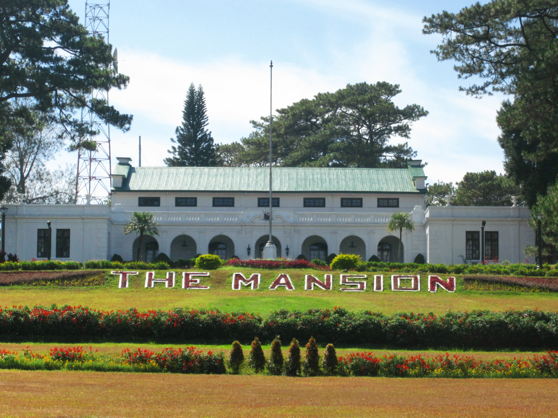 The official summer residence of the President of the Republic of the Philippines.